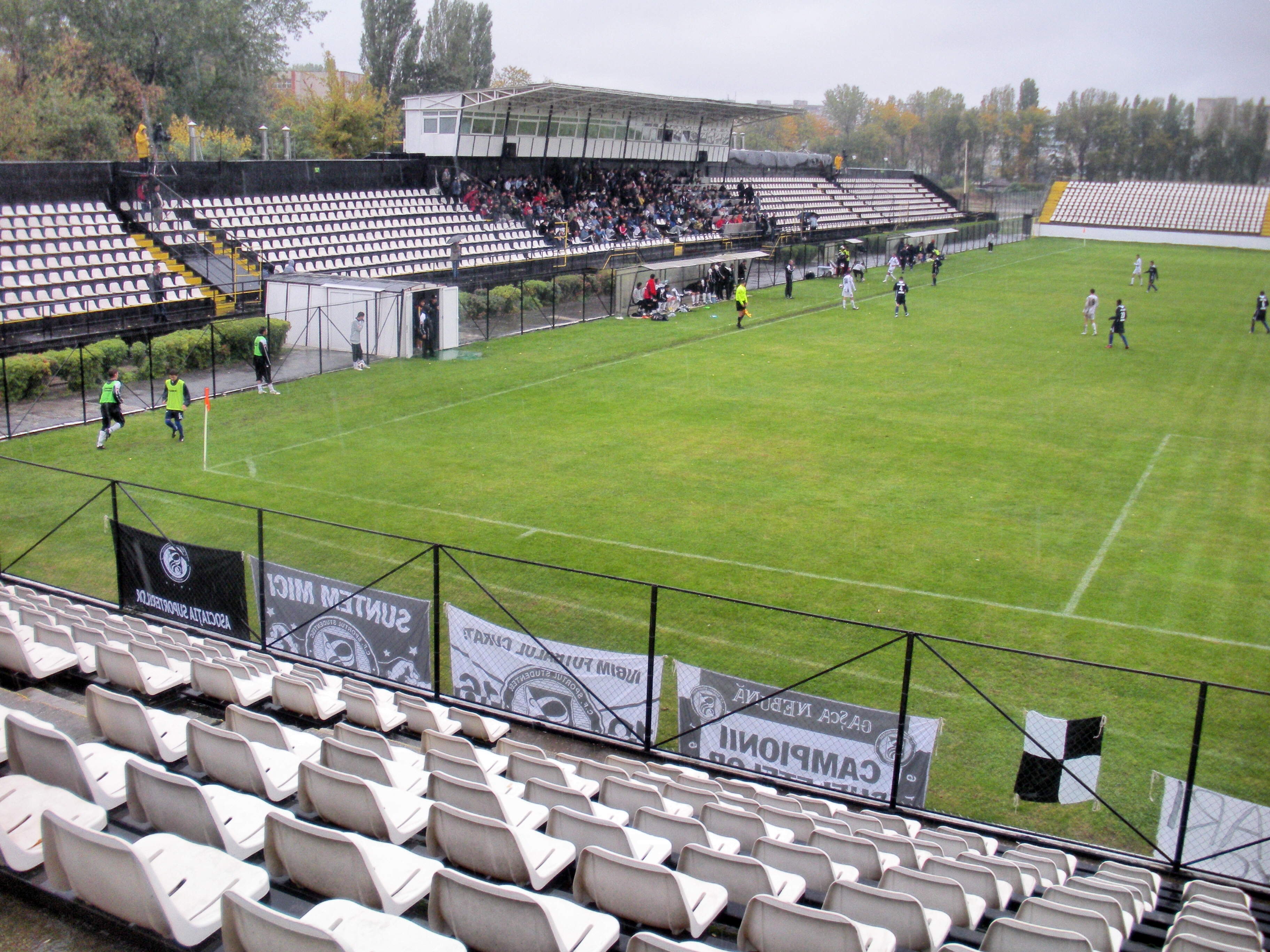 Stadium "Regie" of FC Sportul Studenţesc Bucureşti (Bucharest / Romania)